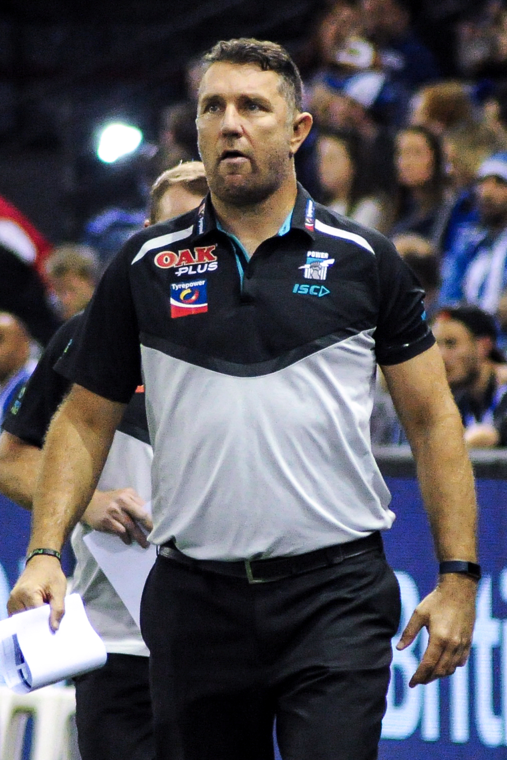 Brendon Lade during the AFL round six match between North Melbourne and Port Adelaide on Saturday, 28 April 2018 at Etihad Stadium in Melbourne, Victoria.